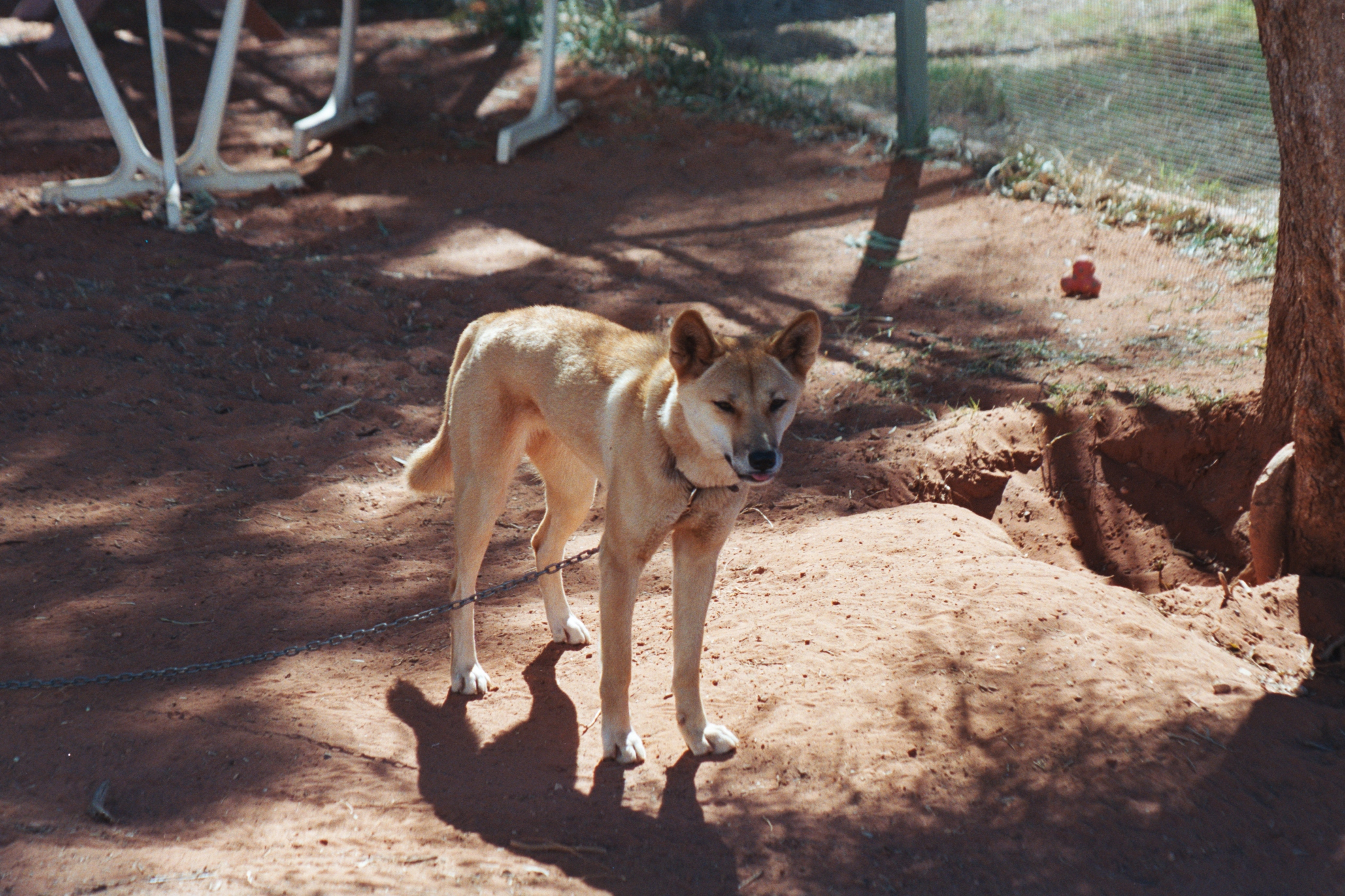 Dingo on a chain in Alice Springs